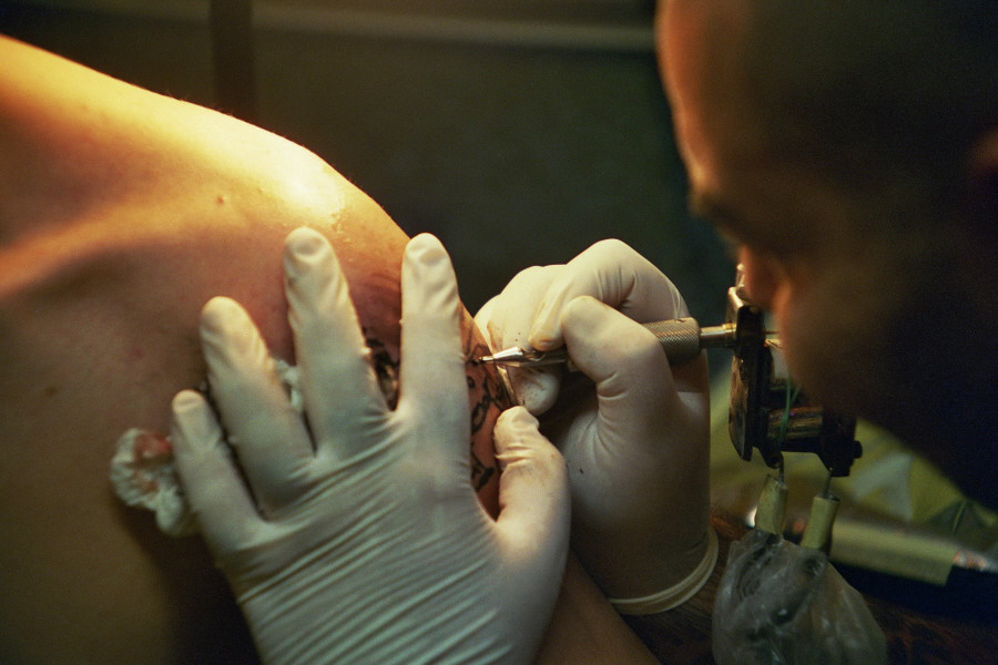 Photographed by myself. The Tattoo-Artist allowed me to publish this Picture.